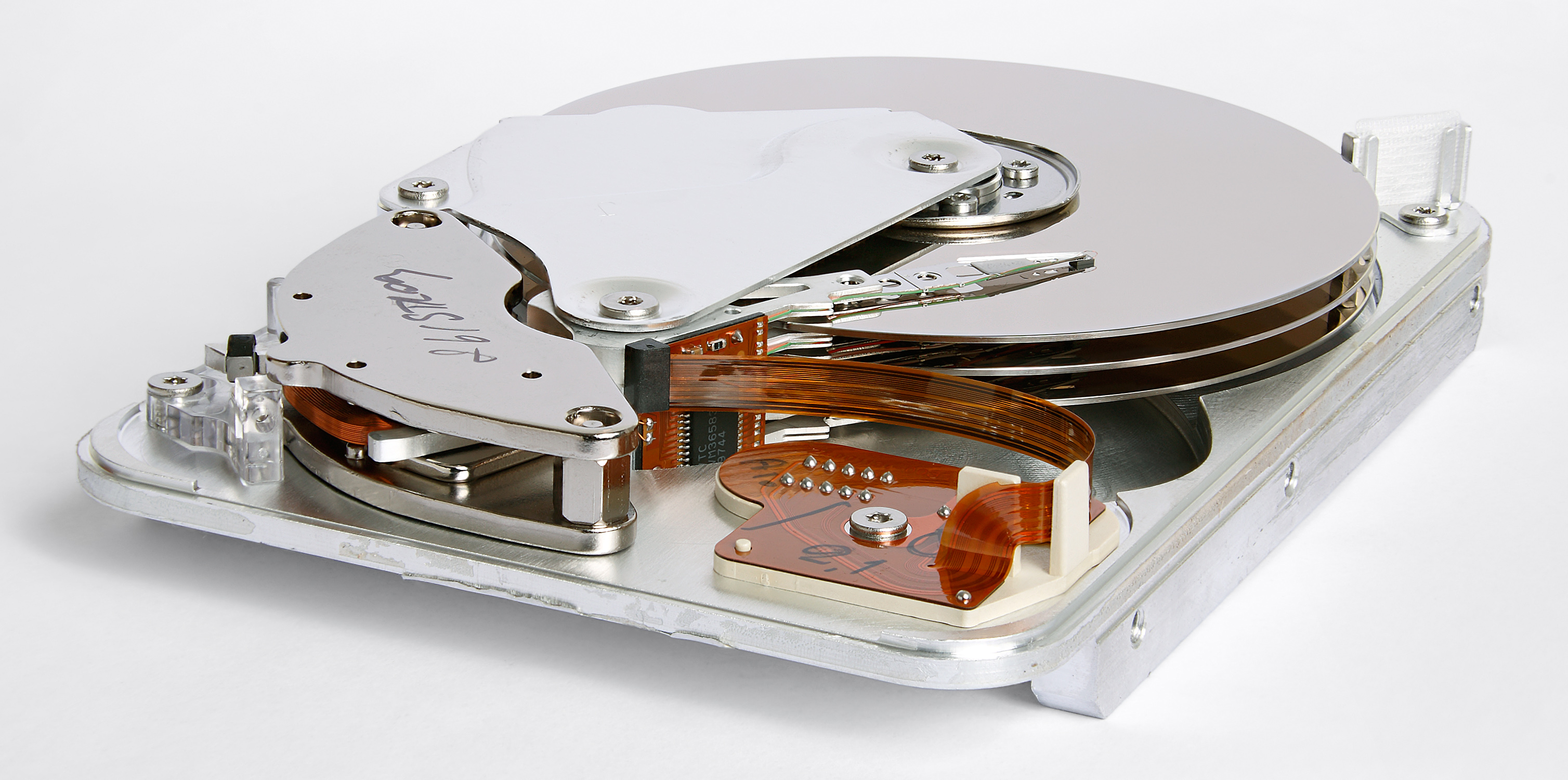 Inner view of a Seagate 3.5 inches hard disk drive Medalist ST33232A model manufactured in Malaysia in 1998. Parallel ATA interface, ultra DMA mode 2, I/O data-transfer rate 33.3 MB/s max, 3,227 MB, 3 platters, 6 physical read/write heads, spindle speed 4,500 RPM, cache buffer 128 kB, MTBF 300,000 hours, dimensions 146.8 x 102.4 x 26.2 mm, weight 540 grams.